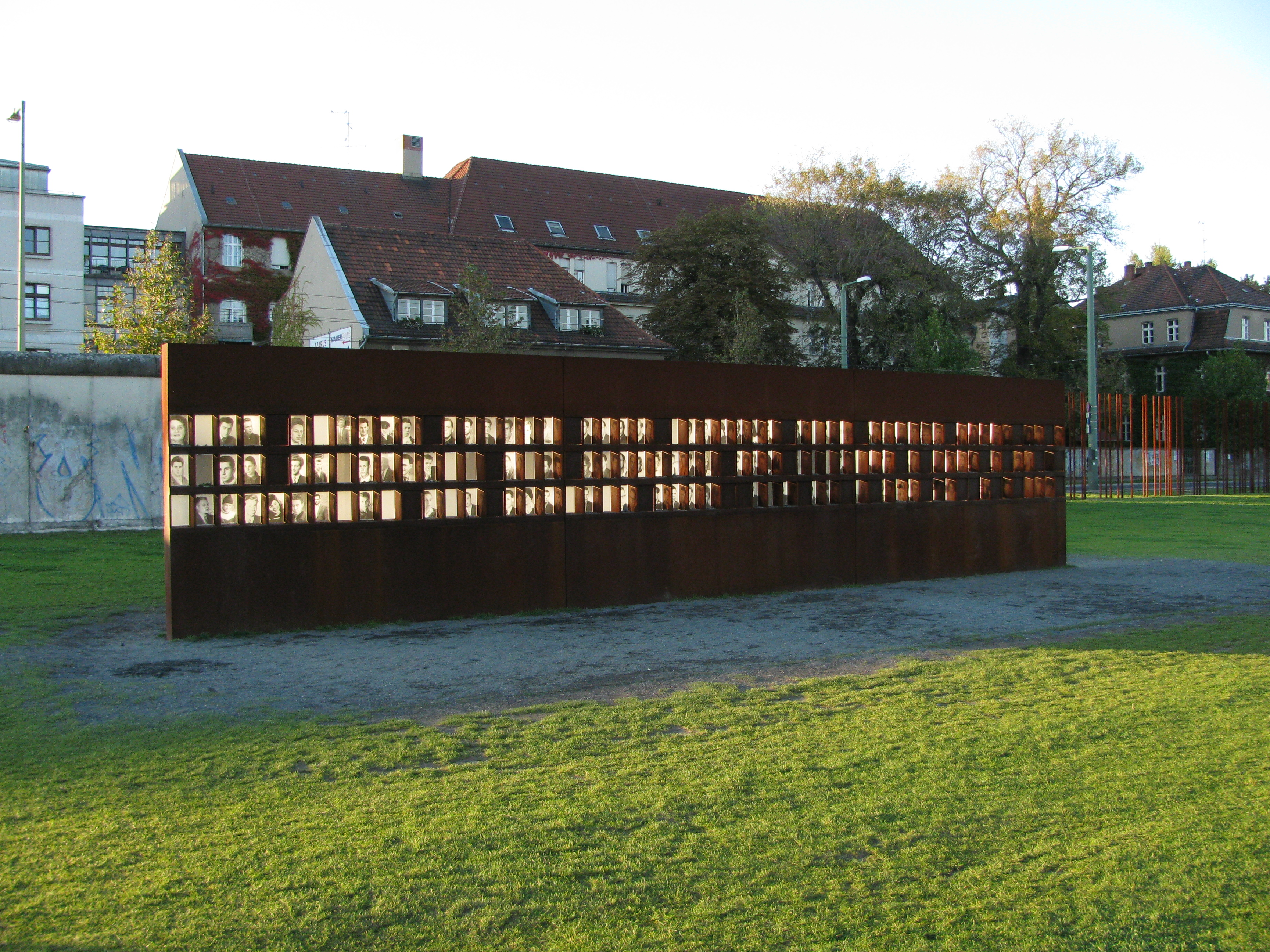 "Window Of Remembrance", an central element of the Berlin Wall Memorial, Bernauer Strasse, Berlin, Germany